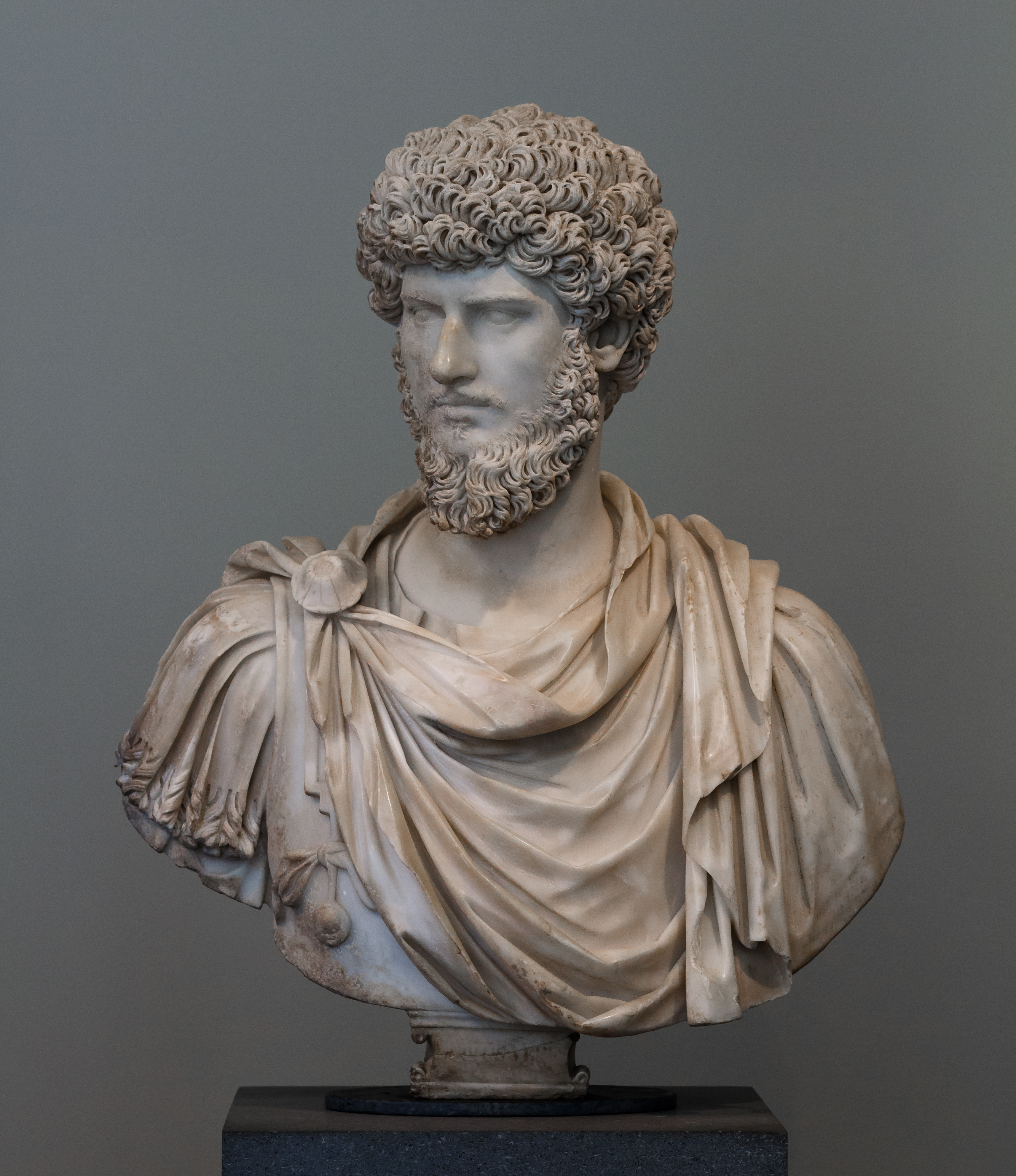 Marble portrait of the co-emperor Lucius Verus, Roman Antonine period